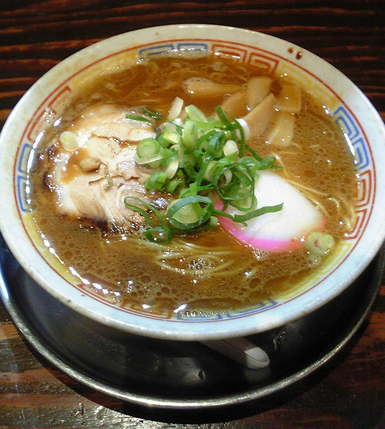 Wakayamaramen